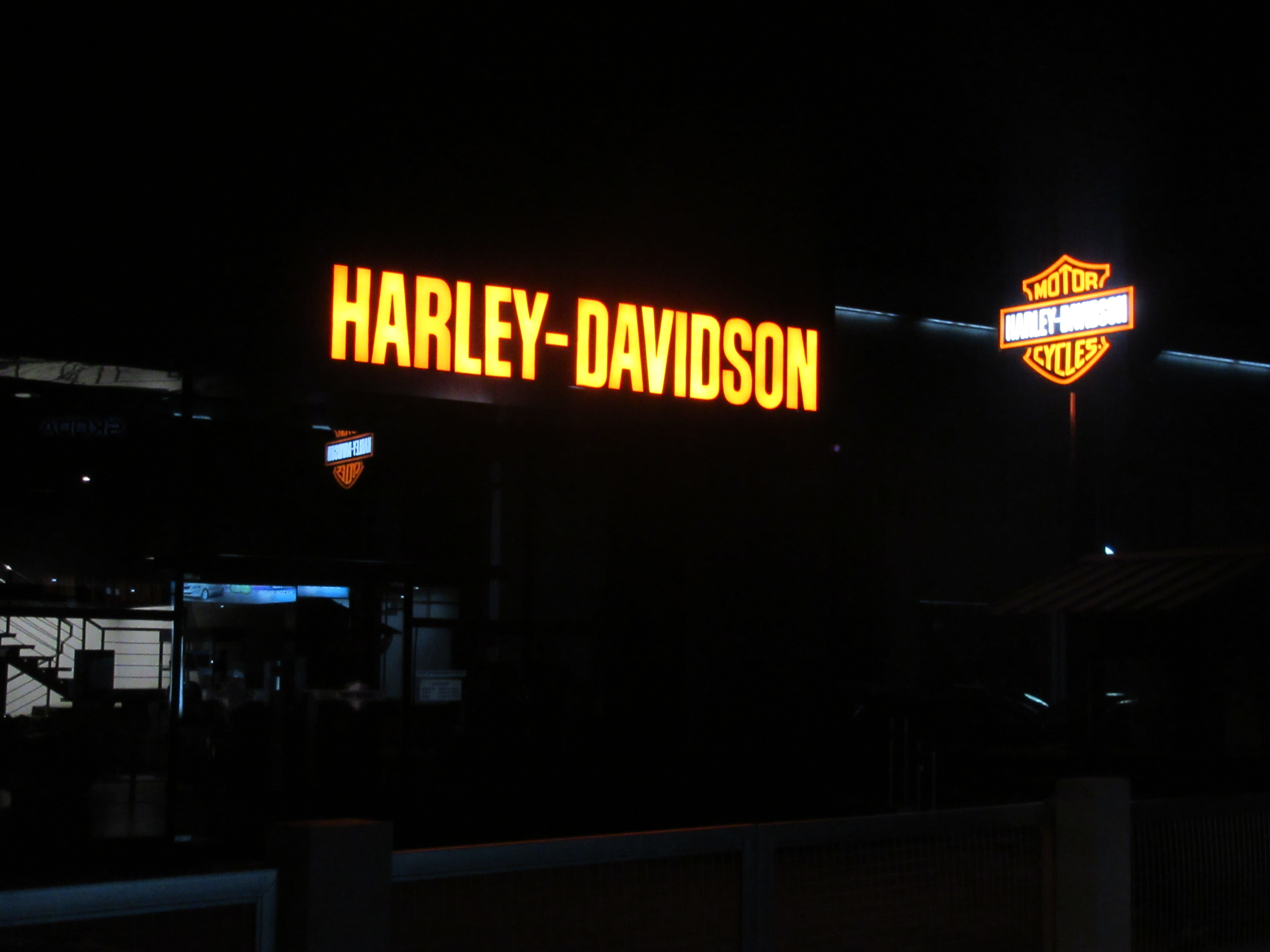 Harley Davidson showroom in Pavangad